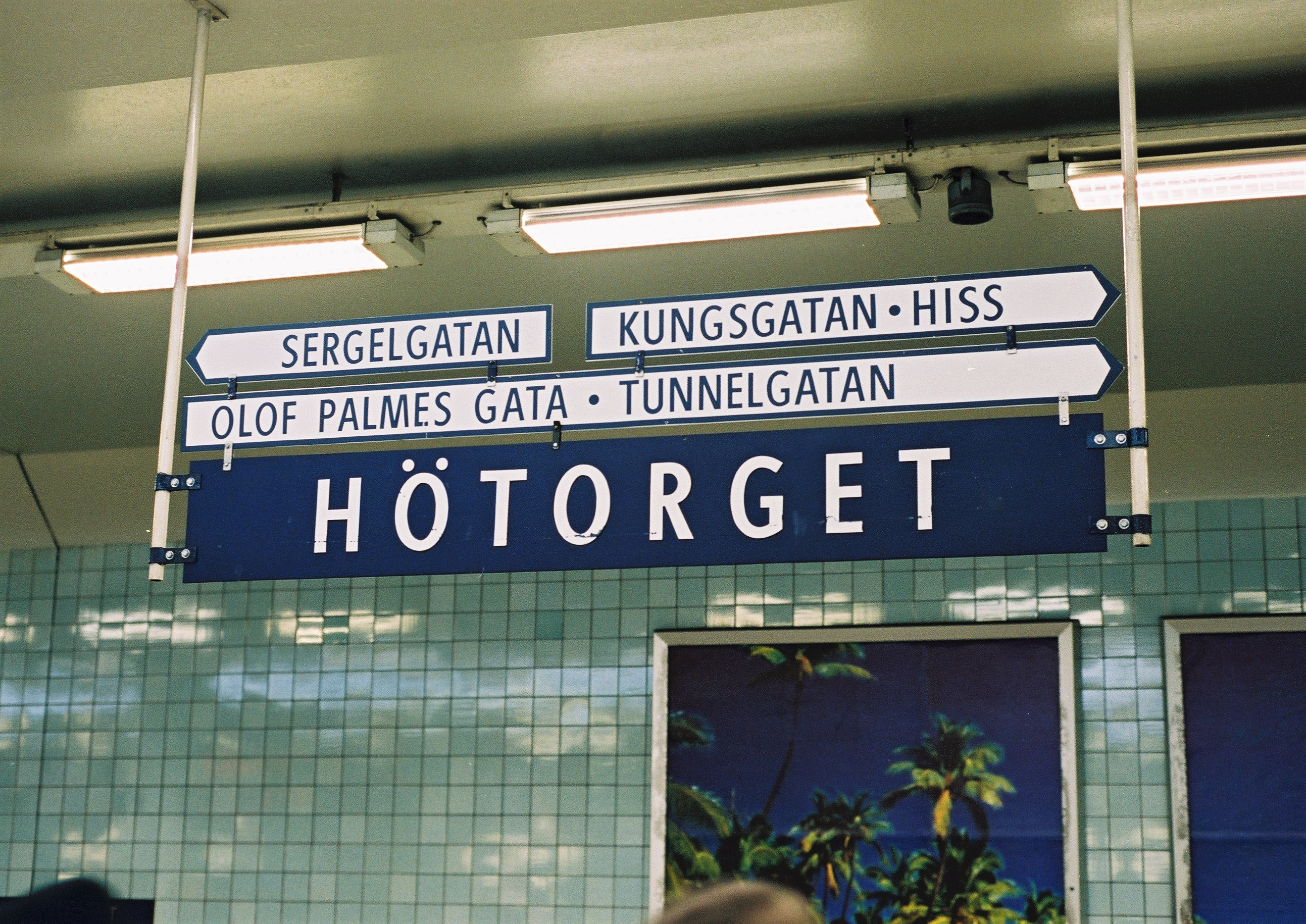 Own work. Taken in spring 2001.